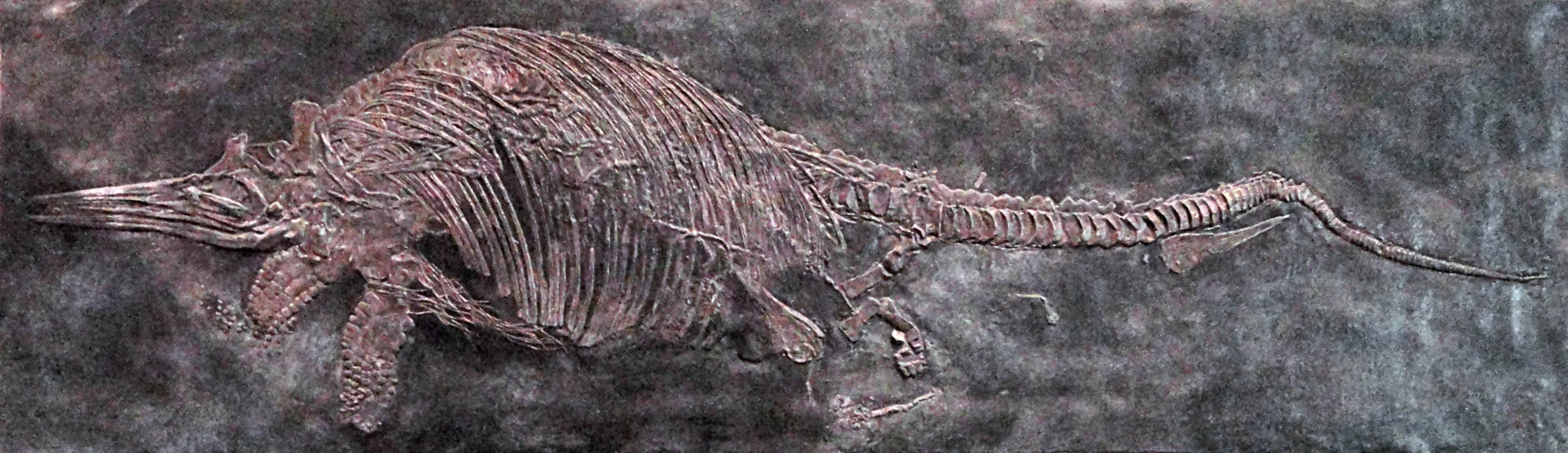 Exhibit in the Royal Ontario Museum, Toronto, Ontario, Canada. This exhibit is old enough so that it is in the public domain, and photography was permitted in the museum. I took this photograph and release it into the public domain.